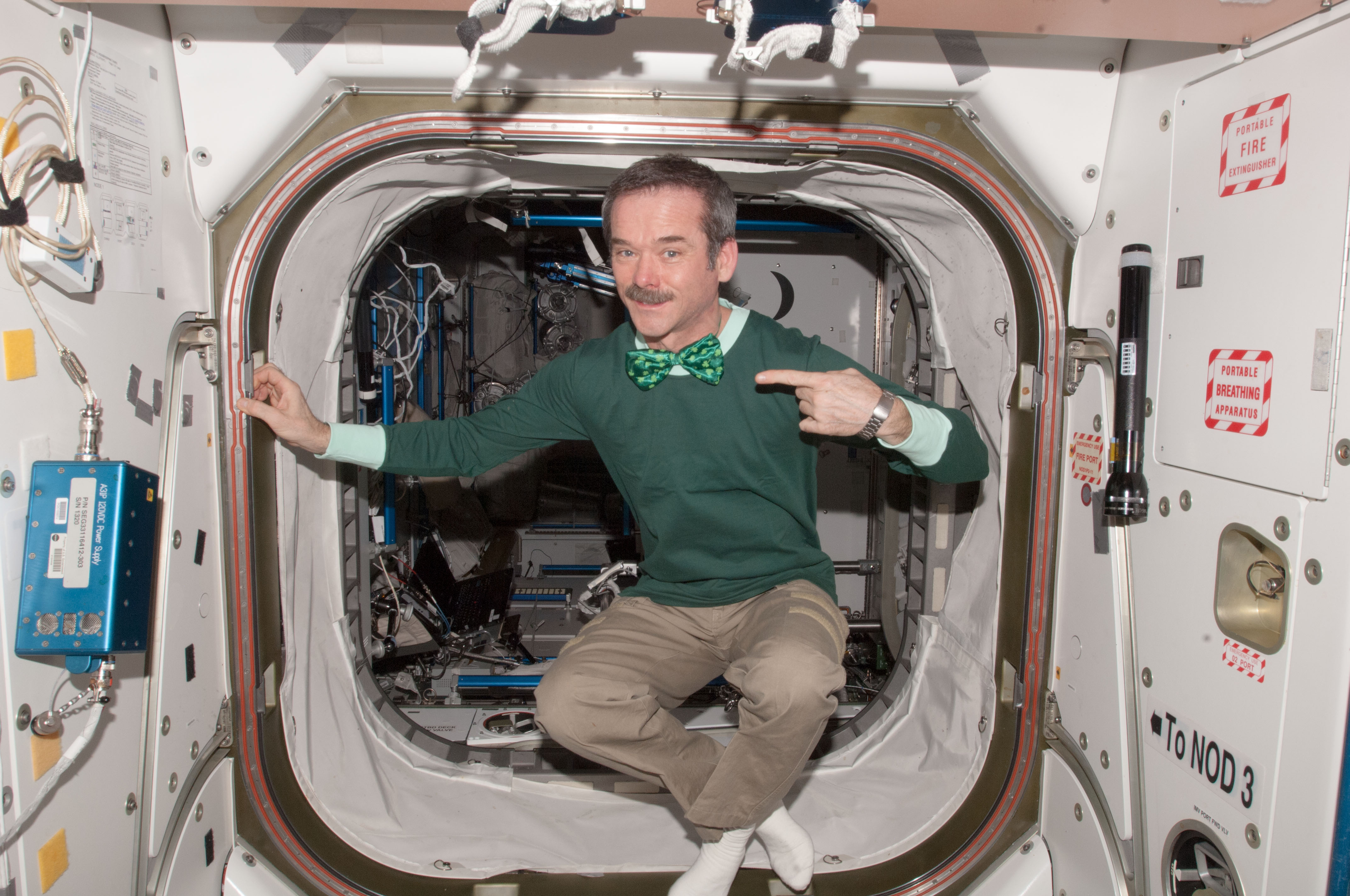 Astronaut Chris Hadfield sent the following message for Saint Patrick's Day 2013: "Wearing the green - Happy St. Patrick's Day from the International Space Station!" Original description: Freshly installed Expedition 35 Commander Chris Hadfield of the Canadian Space Agency shows he's ready for St. Patrick's day with a green tie, sweater and other clothing as he takes a brief break from scheduled work aboard the Earth-orbiting International Space Station on the eve of the widely celebrated Irish-rooted day.